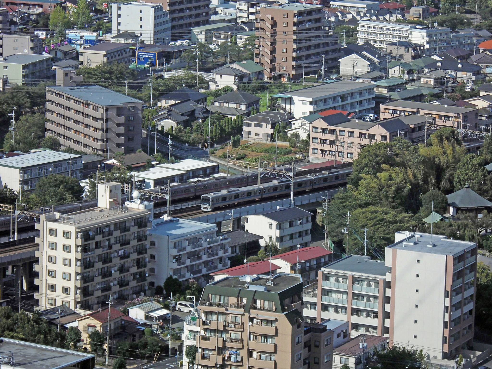 Train 130,817. Odakyu line trains and Keio Line run parallel in Tama city.